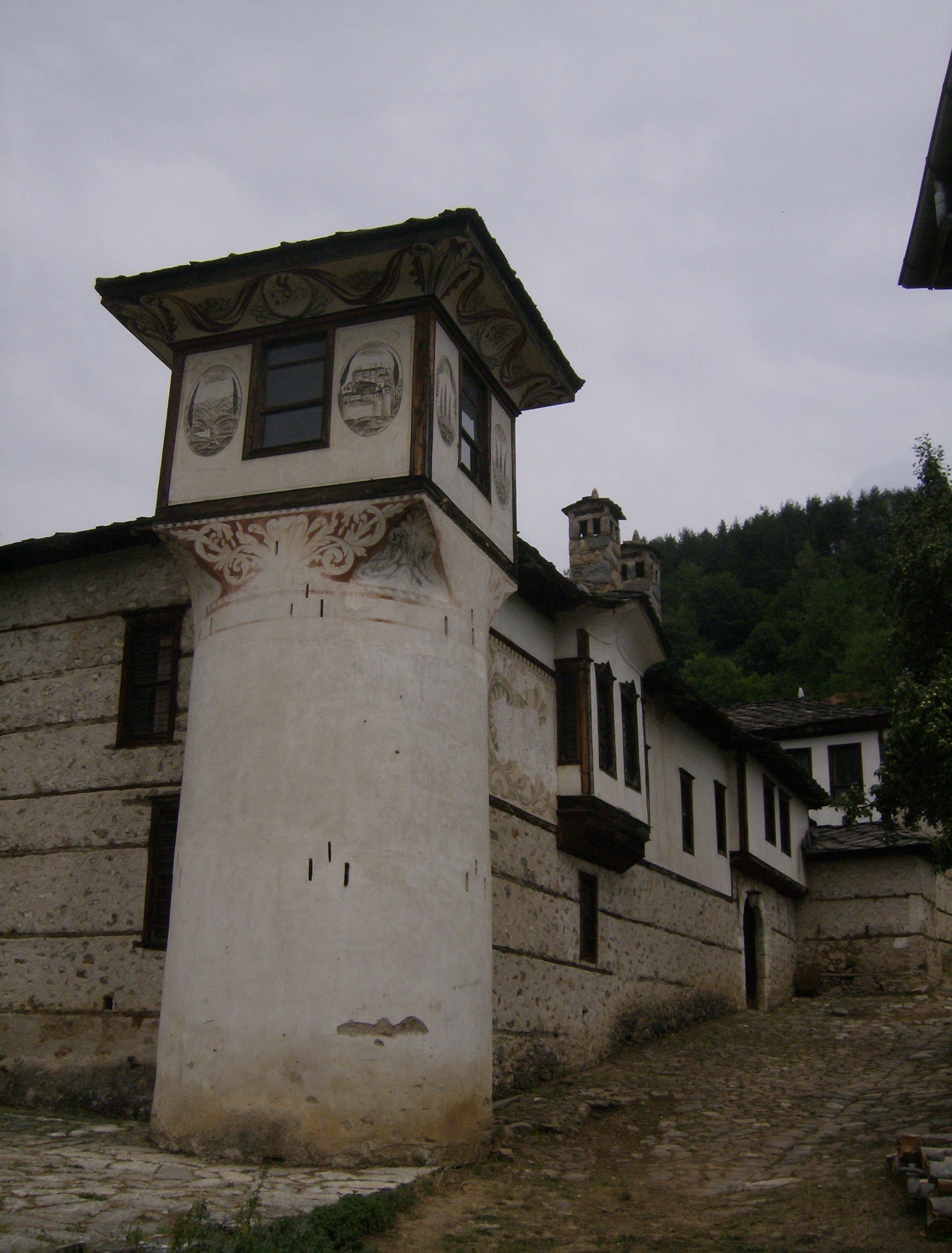 Agushevi konatsi